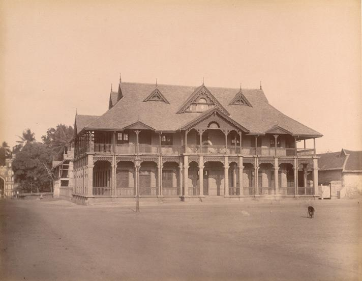 Normal School Trivandrum Year - 1900 Photographer - Zacharias D'Cruz The school was two storeyed with pitched roof and projecting dormers of carved wood in local style. When the Government of Travancore first established English schools it obtained teachers from outside. In 1894 a Normal School Institution was established in Trivandrum in the name of English Normal School. It consisted of three classes in which those who had passed the Lowers Secondary, Matriculation and F. A. Examinations were trained. The Government sanctioned two Normal Schools during 1883-84, one at Trivandrum and the other at Kottar for the training of teachers for Vernacular schools. The services of a duly qualified and trained teacher from Madras were secured to start the Normal School at Trivandrum. The School at Kottar was abolished in 1894, and the one at the Capital was amalgamated in 1900 with the English Normal School established in 1894